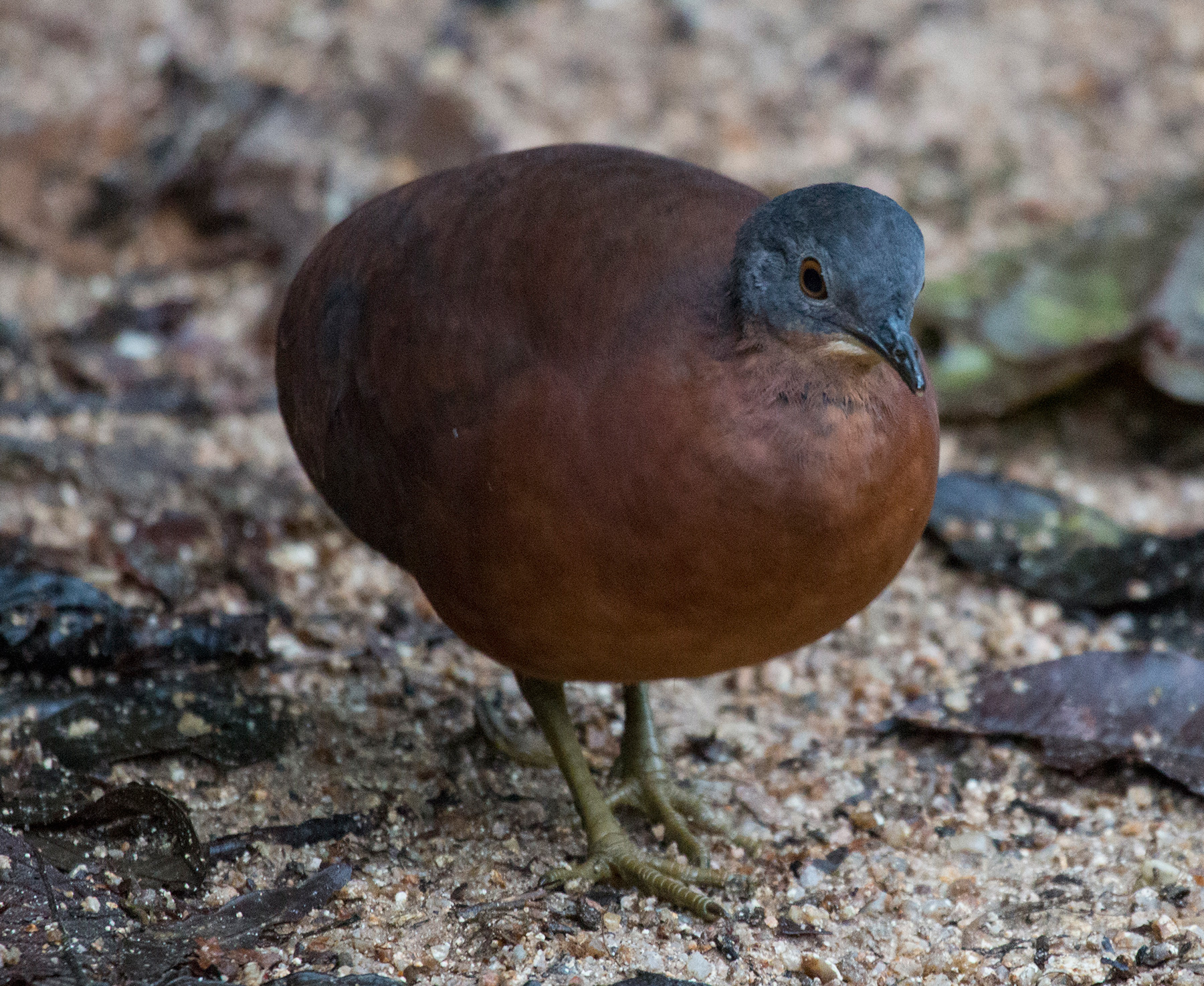 Little tinamou, Copalinga Ecolodge near Zamora, Ecuador